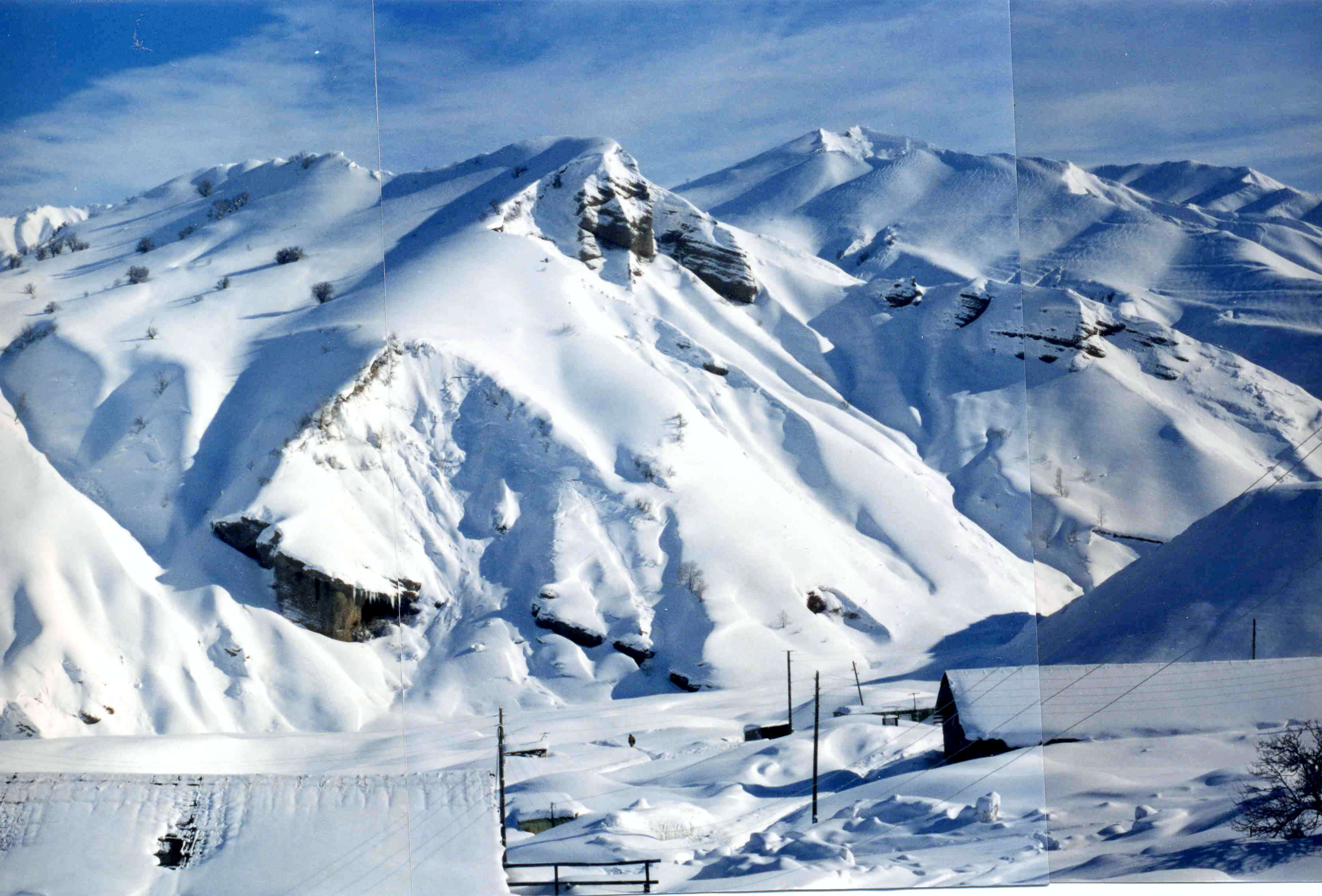 Mid-winter at the mining camp, Darvaz which is in the south of Tajikistan close to the Afghan border.